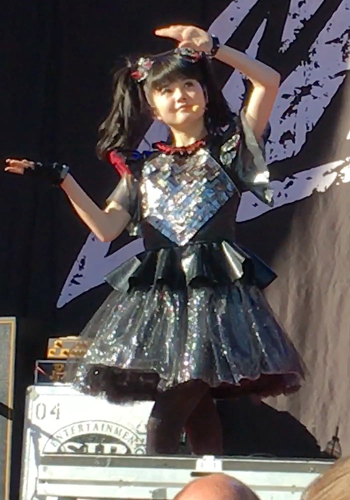 Yui "Yuimetal" Mizuno performing "Megitsune" on 6/25/17 at the Ford Amphitheater in Nampa, ID, while on the Babymetal US Tour 2017.